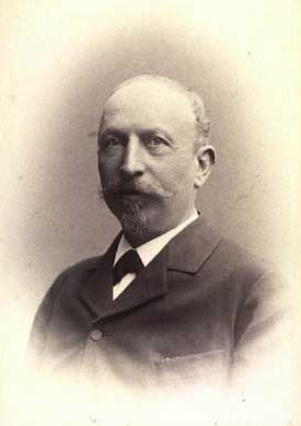 Eduard Moritz Jacoby (1845-1909), Danish physician and politician